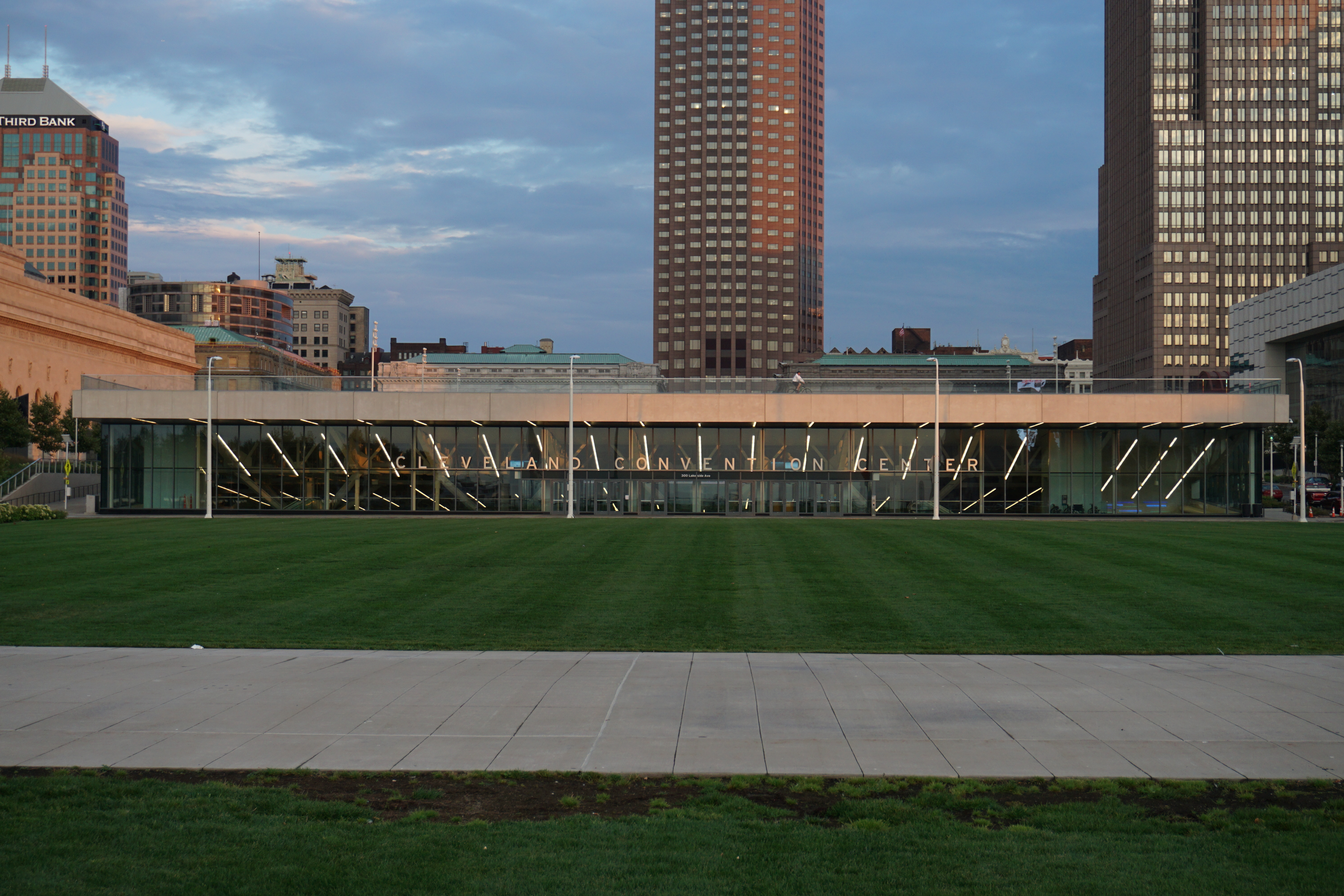 The Cleveland Convention Center in Cleveland, Ohio (United States).